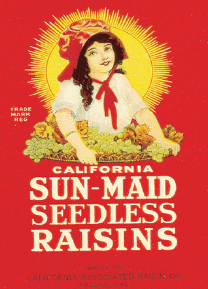 First Sun-Maid packaging to feature a likeness of Lorraine Collett as the "Sun-Maid Girl"